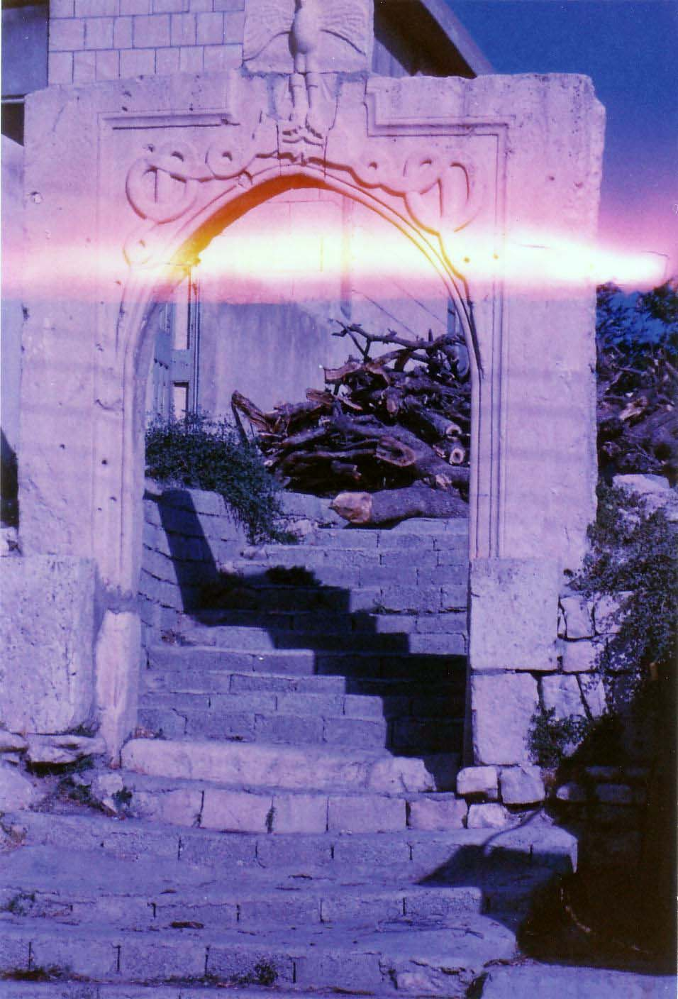 A gate in the city of Amadiyah, probably Assyrian